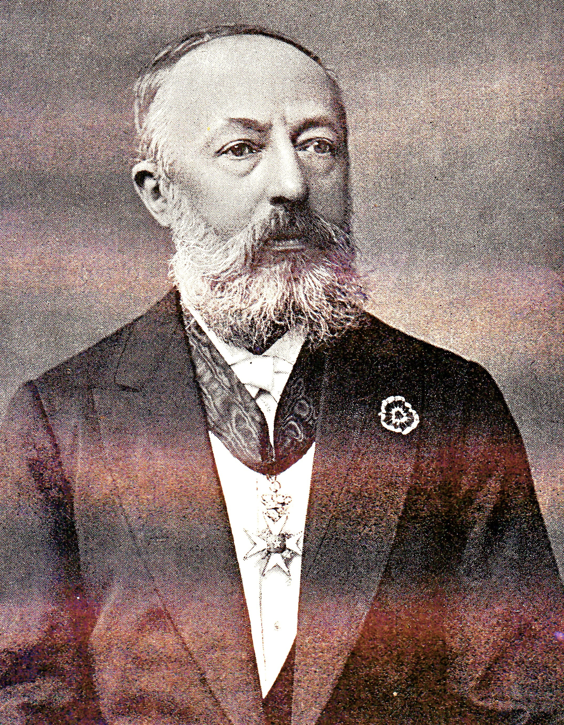 Dr. M.J. de Goeje